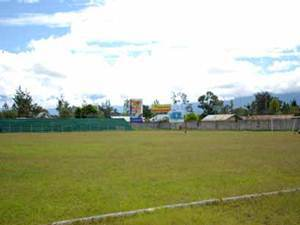 Stadion Pendidikan Wamena